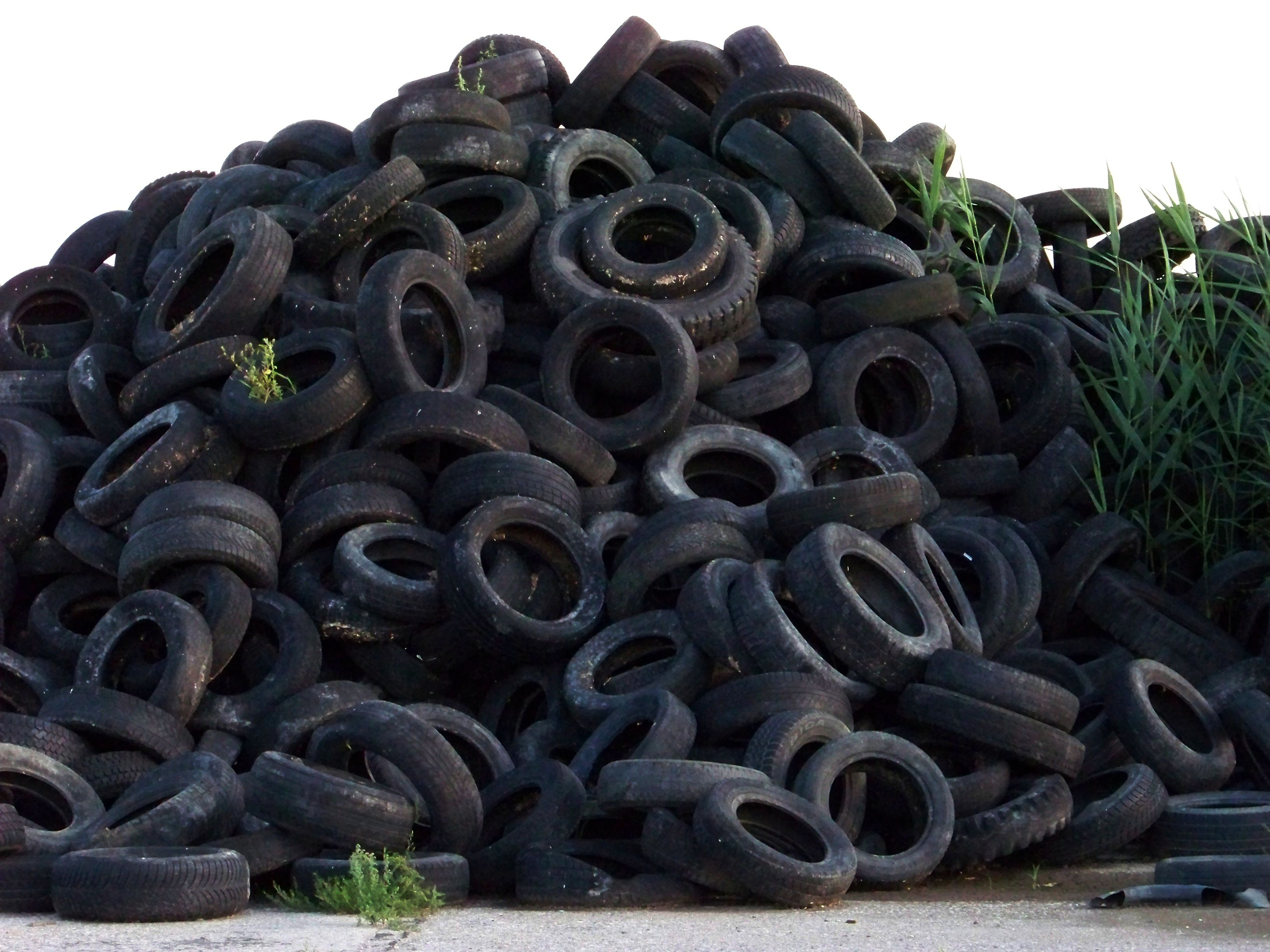 Holice, Pardubice District, Pardubice Region, the Czech Republic. A dump of tires.